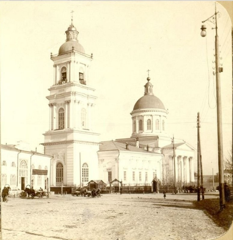 Kazan Church (Tula)